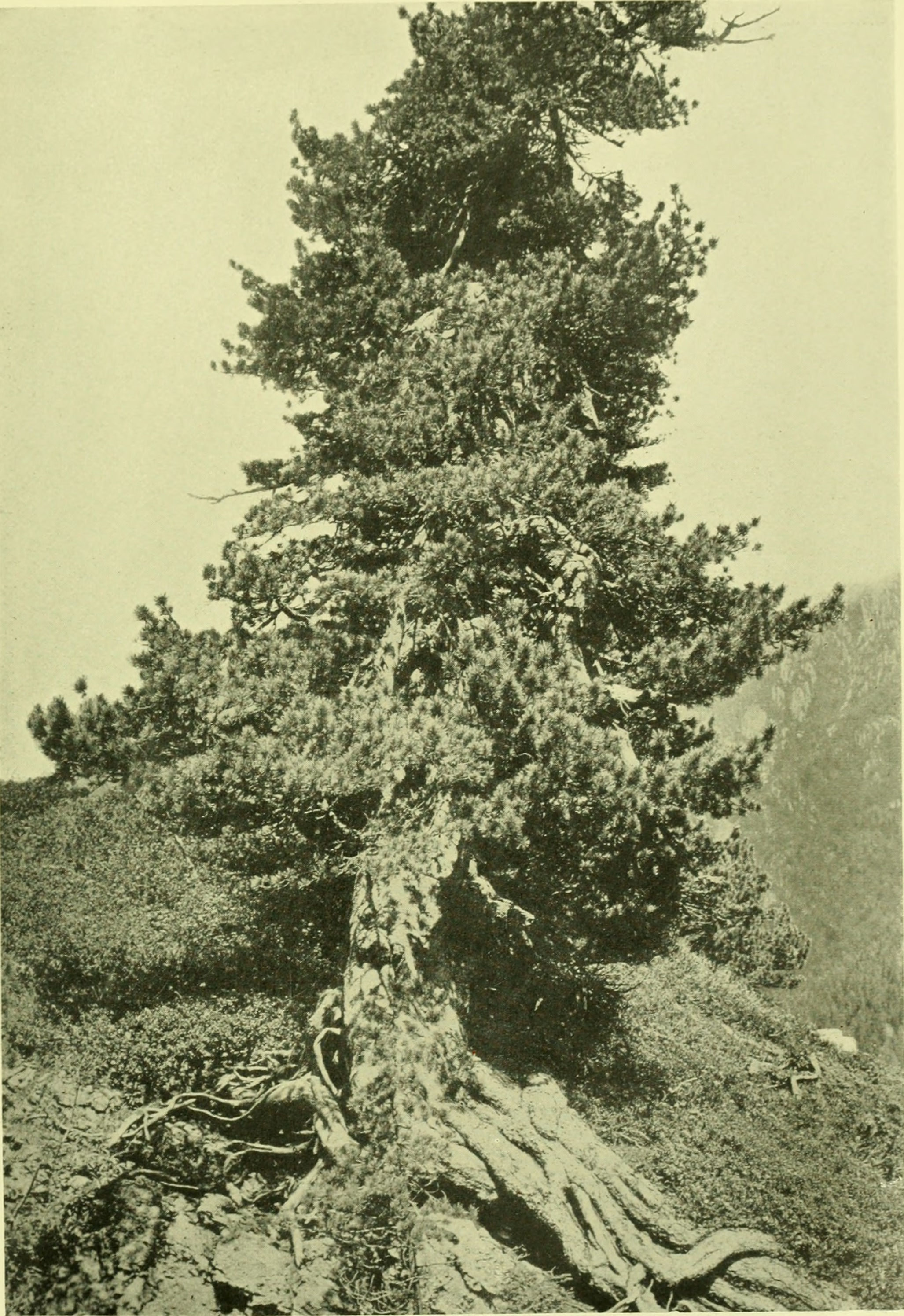 Title: Die Pflanzenwelt Year: 1913-1922. (1910s) Authors: Warburg, Otto, 1859-1938 Subjects: Plants Publisher: Leipzig : Bibliographisches Institut Text Appearing Before Image: Tafel 20. Text Appearing After Image: a) Zirbelkiefer (Pinus cembra) in den fllpen. Nach Photographie von Nenke und Ostermaier in Dresden.